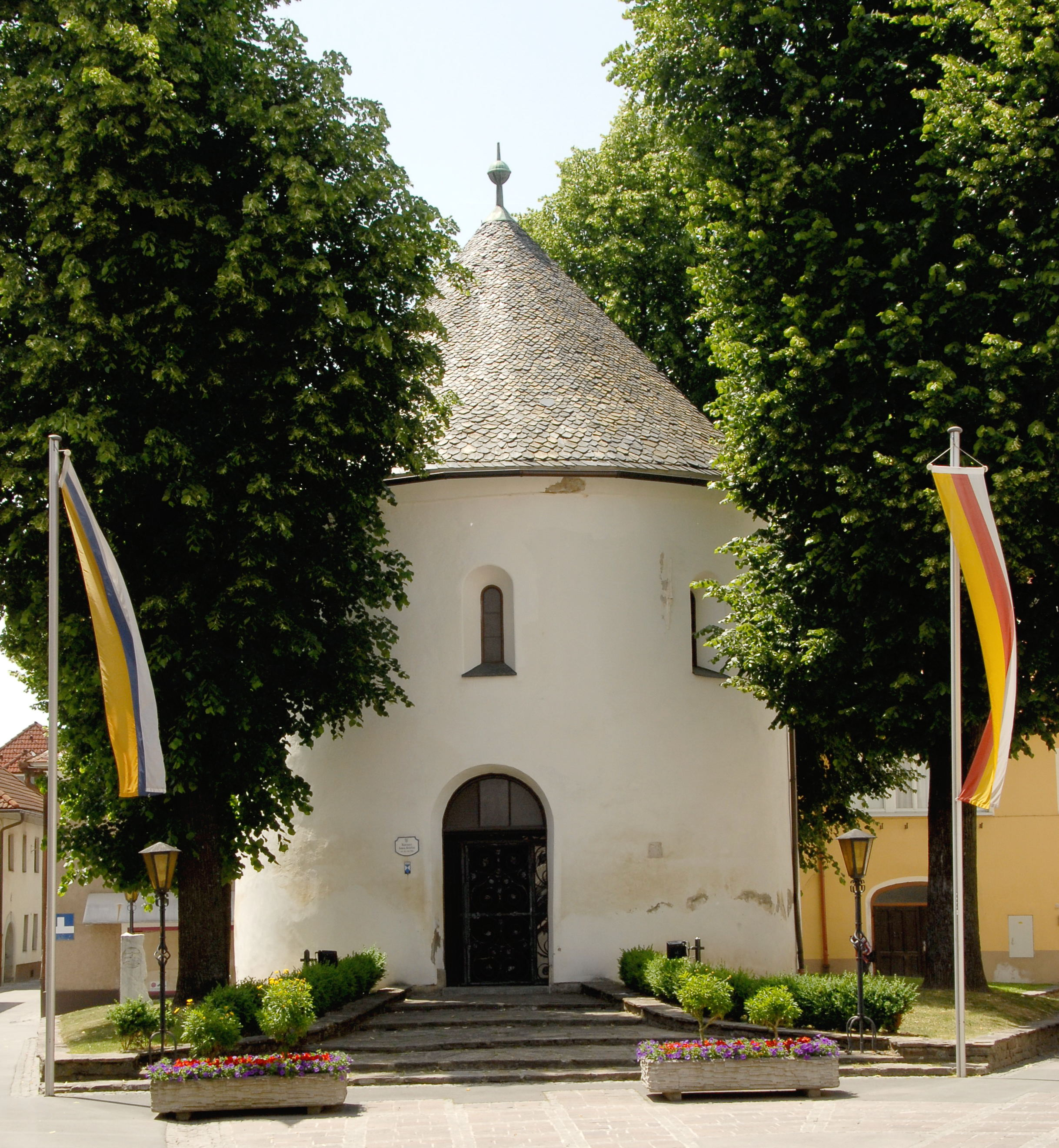 Charnel house, romanesque rotunda from the 12th/13th century in the city of St. Veit an der Glan, Carinthia, Austria, EU